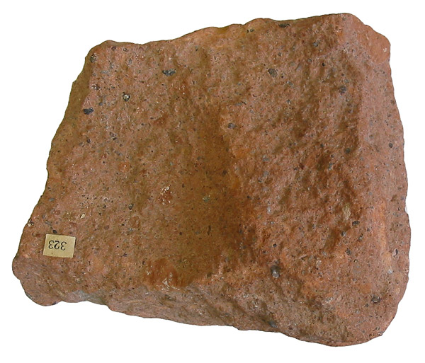 Photographer: Siim Sepp Date of the creation: 20th April, 2005.